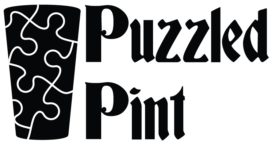 The full Puzzled Pint logo, with pint glass and text.